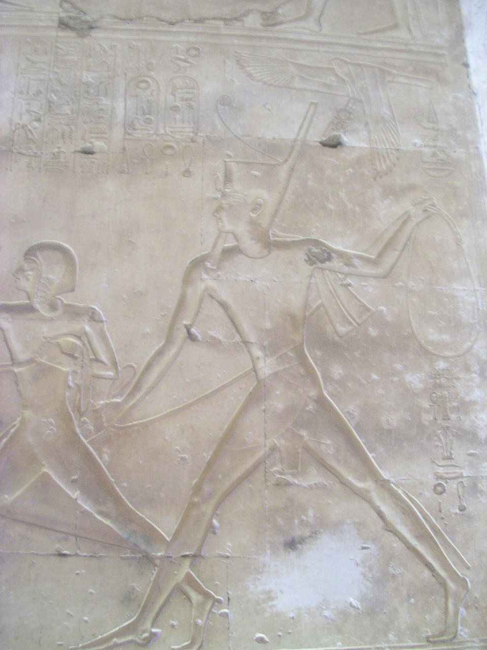 A relief depicting prince Amun-her-khepeshef (left) and Ramses II (right) from the Temple of Abydos. Amun-her-khepeshef was the 'first born son' of pharaoh Ramesses II.